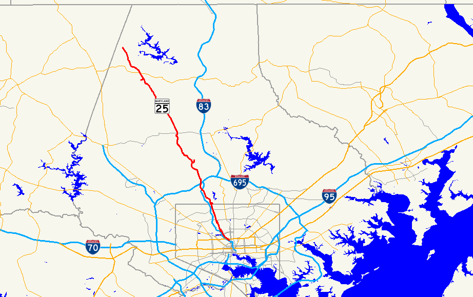 Map of Maryland Route 25